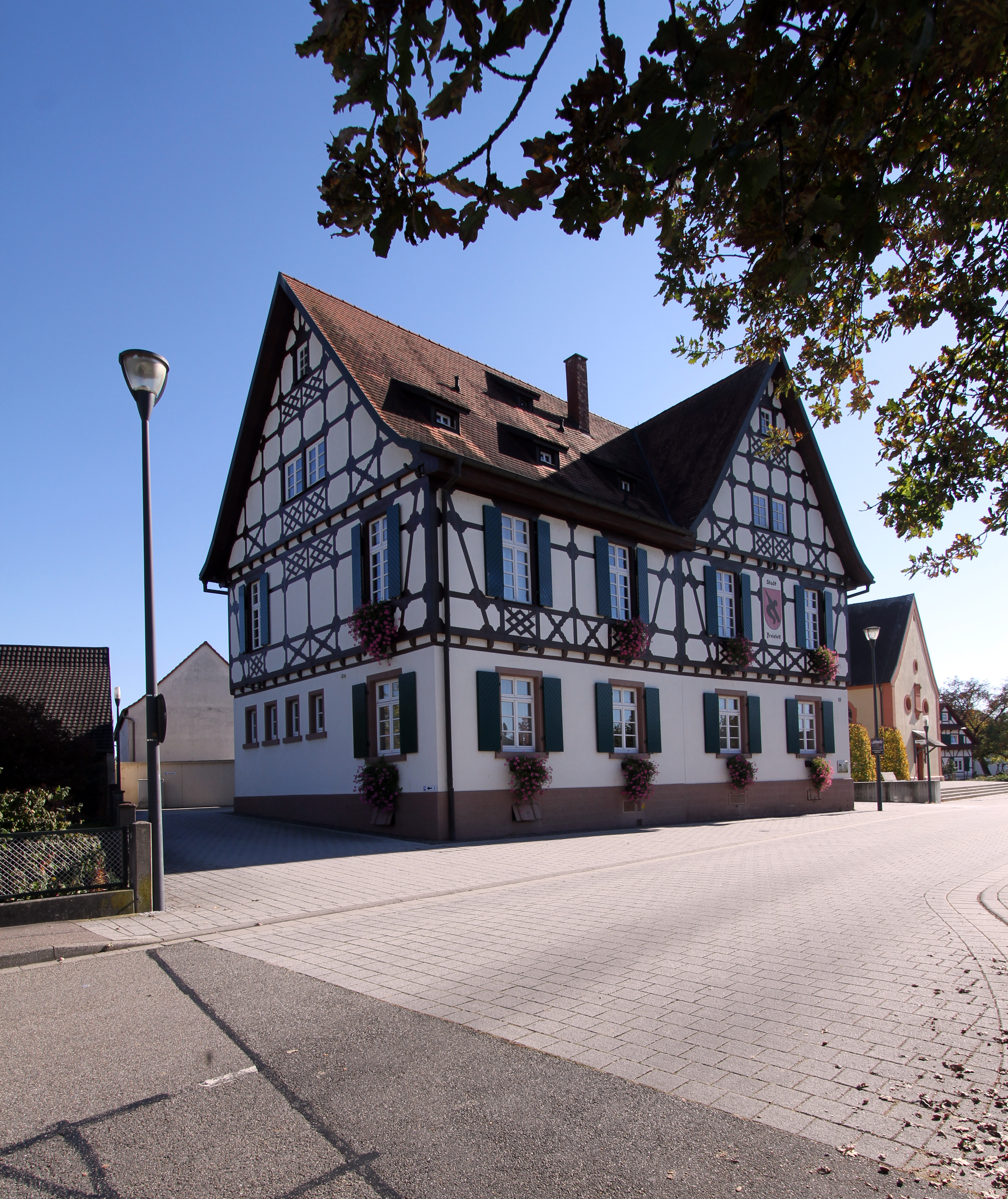 Town hall of Rheinau (Baden) in Freistett.